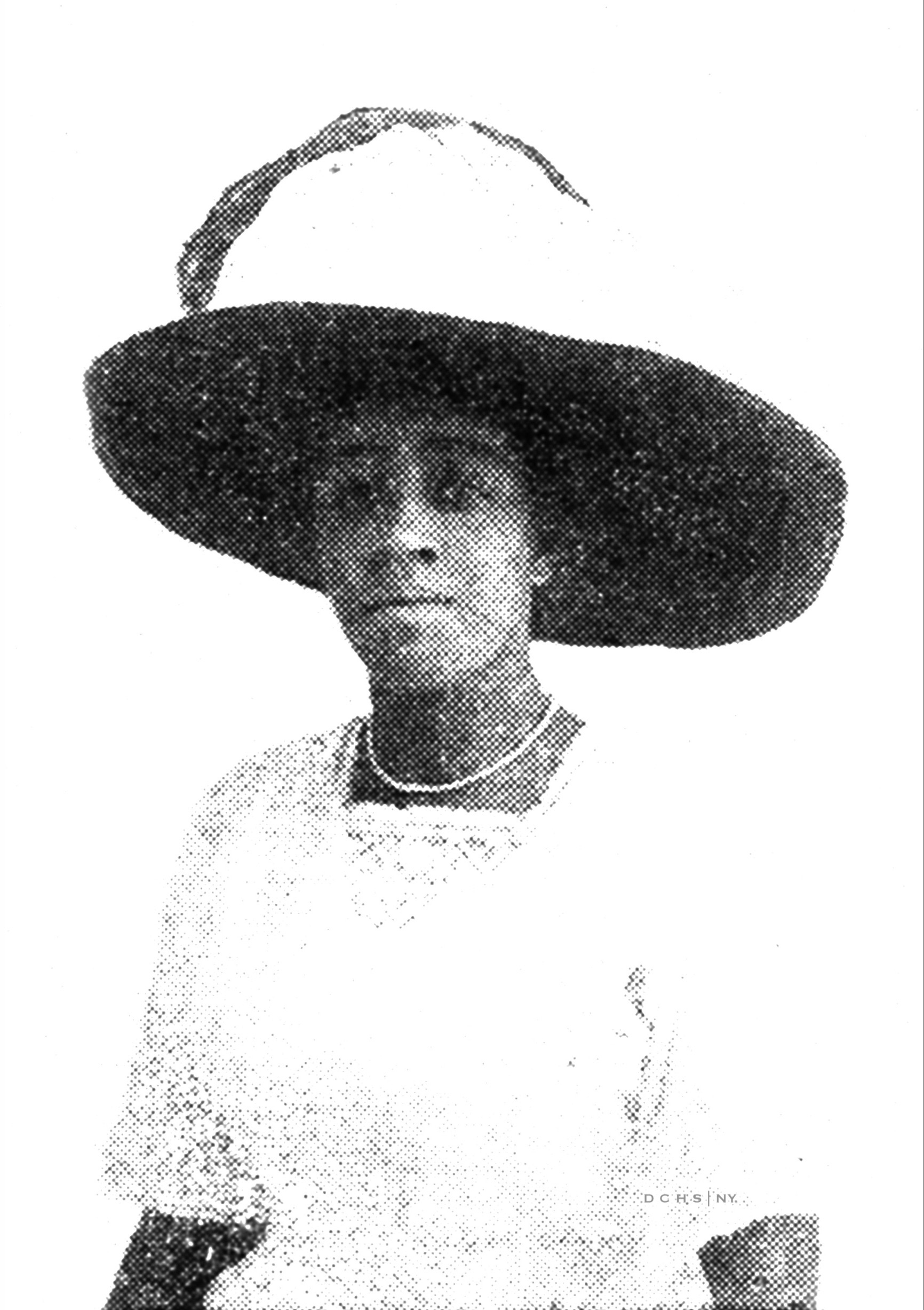 From a profile of Sadie (Johnson) Peterson, later Delaney, in the AME Zion Church Parish publication, "The Quill."